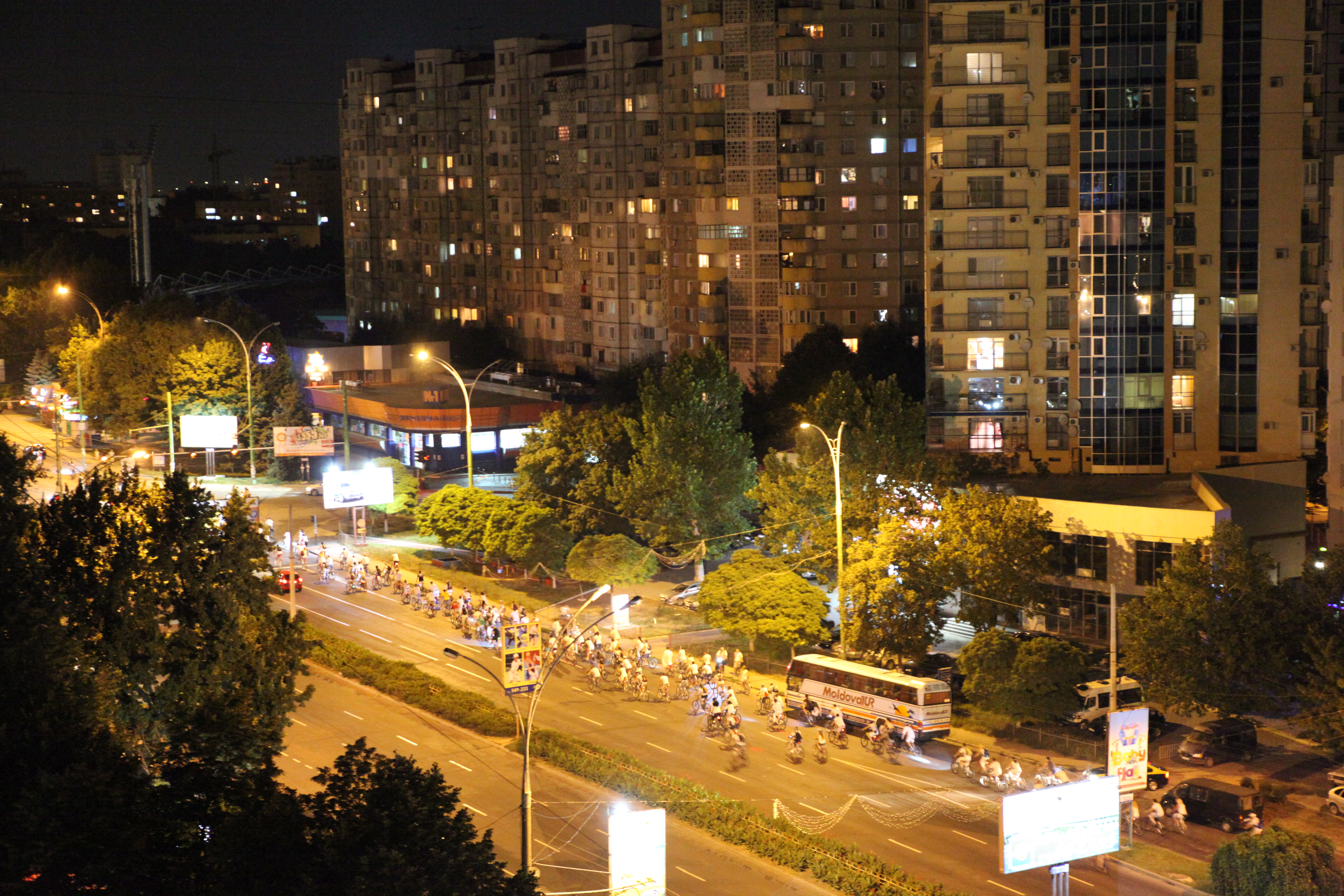 'White Night Ride' in Chișinău, August 9th, 2013